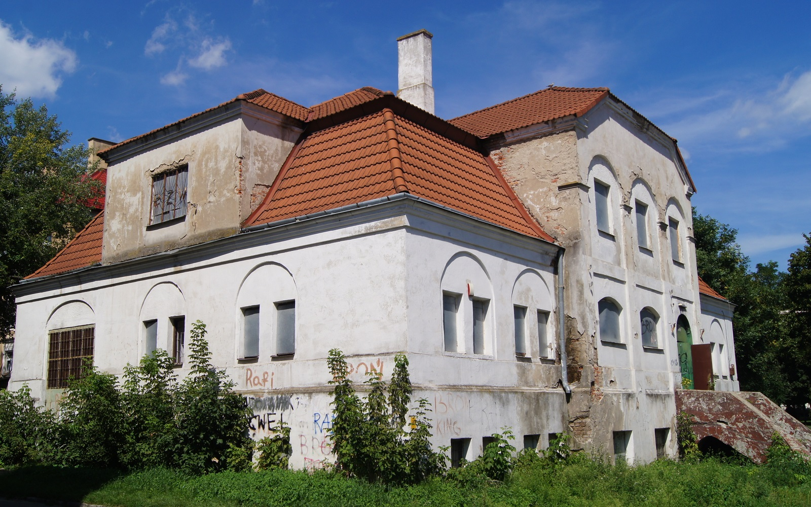 Radom, public bath, ulica Planty - 2018